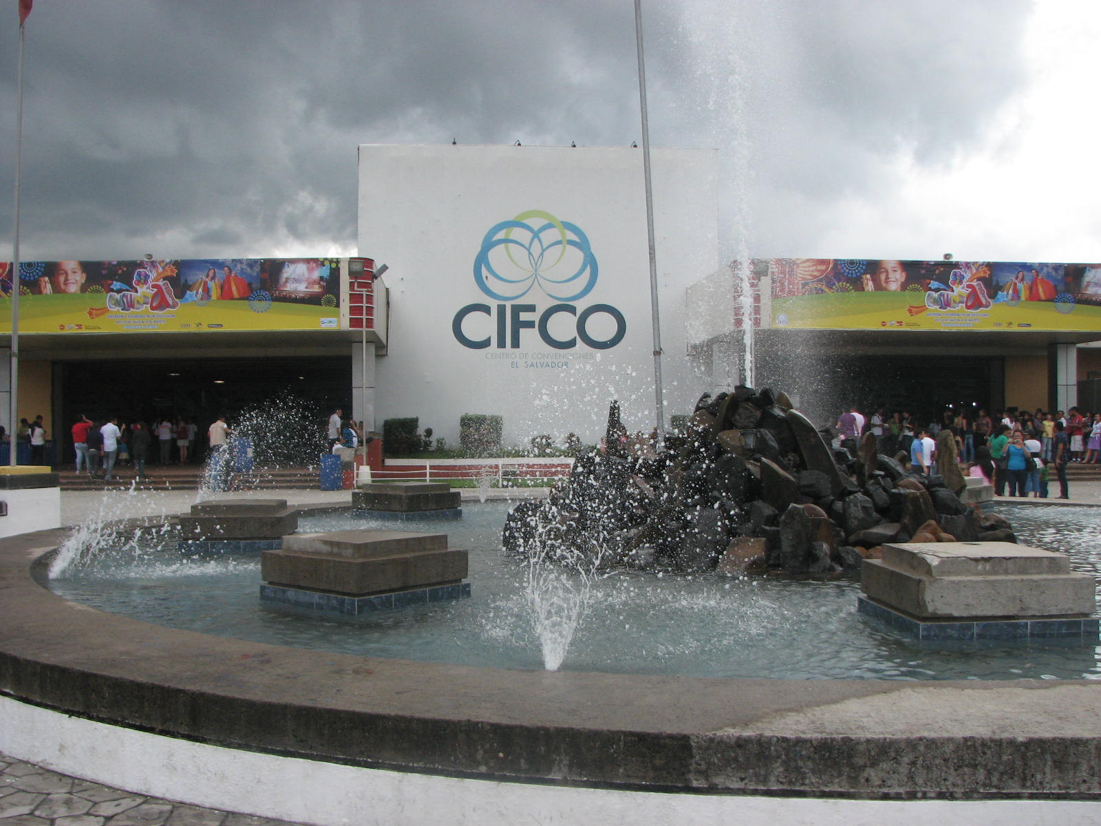 Main entrance of the fairgrounds in San Salvador.